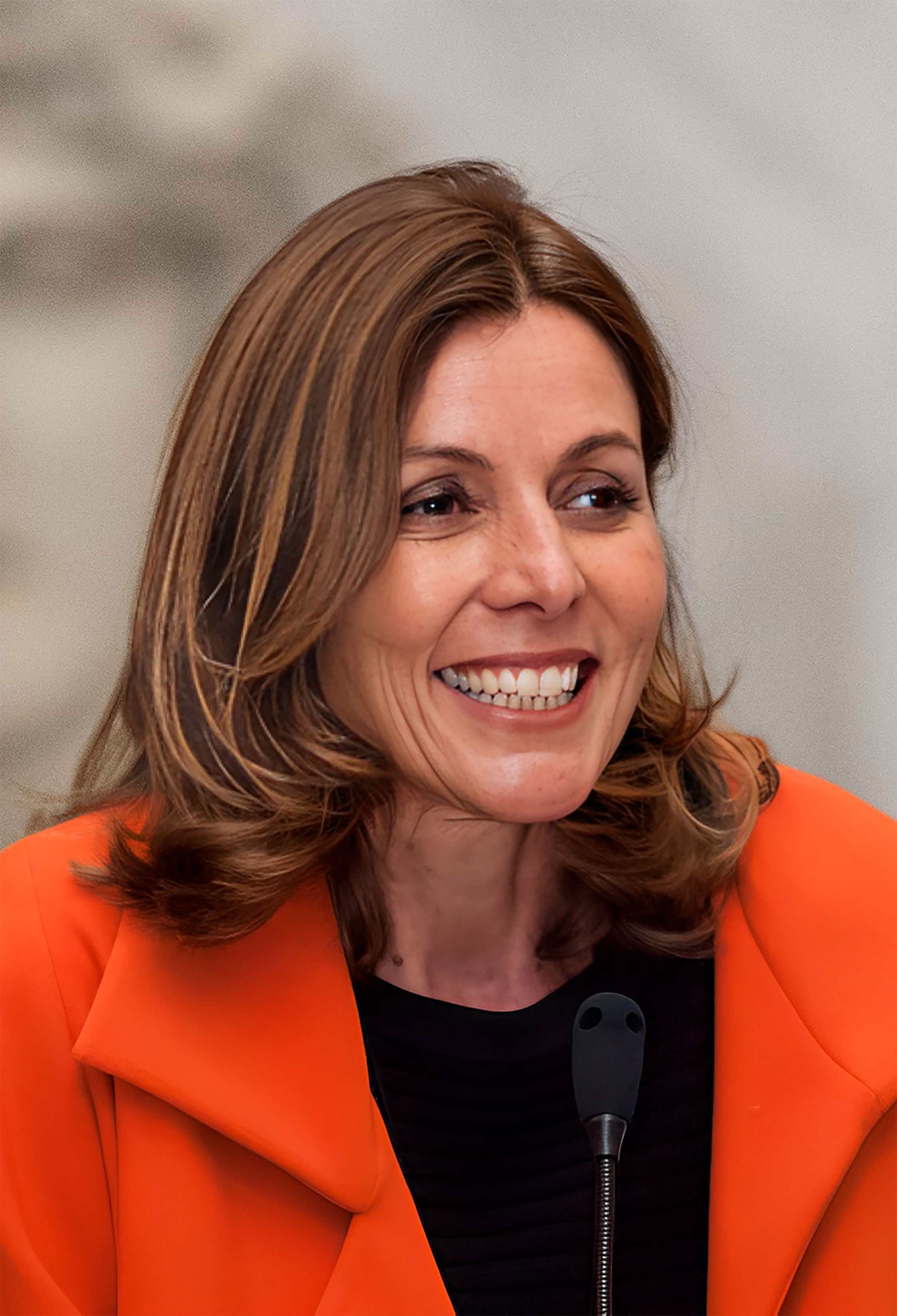 Barbara Jatta on the opening of show "Vatican: from Saint Peter to Francisco" in Mexico City on 19 June, 2018.